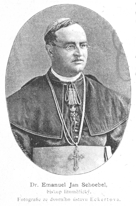 Portrait of Emanuel Jan Křtitel Schöbel (1824-1909), bishop of Litoměřice